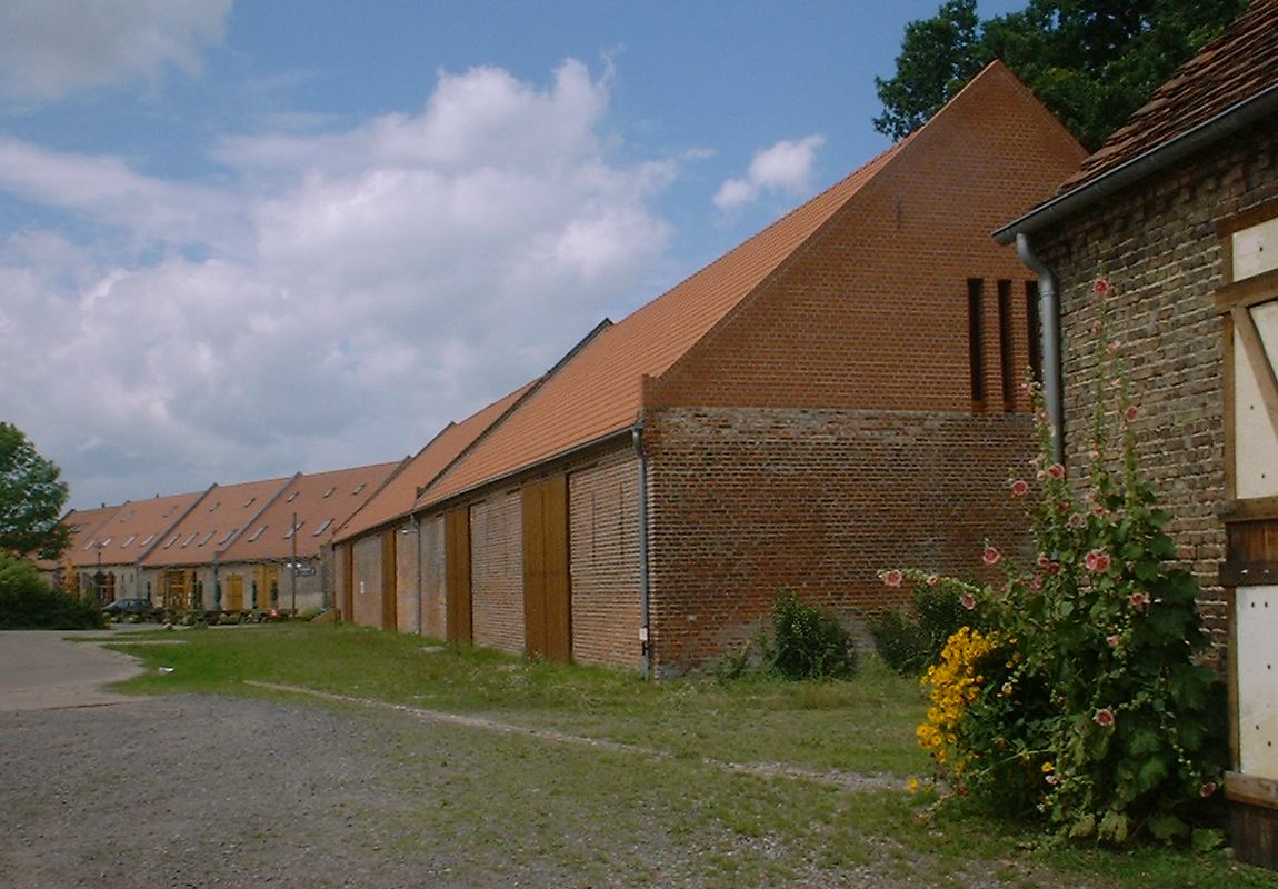 Barns in Kremmen in Brandenburg, Germany